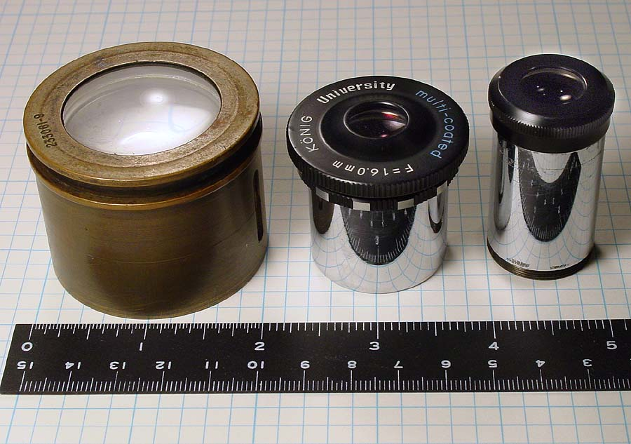 The image shows three telescope eyepieces that exemplify the most important eye piece diameters in amateur astronomy: 2 inch, 1 1/4 inch and 0.96 inch. The eyepiece in the middle is of a Koenig design. The smallest diameter is only found in older and smaller telescopes these days (2010).